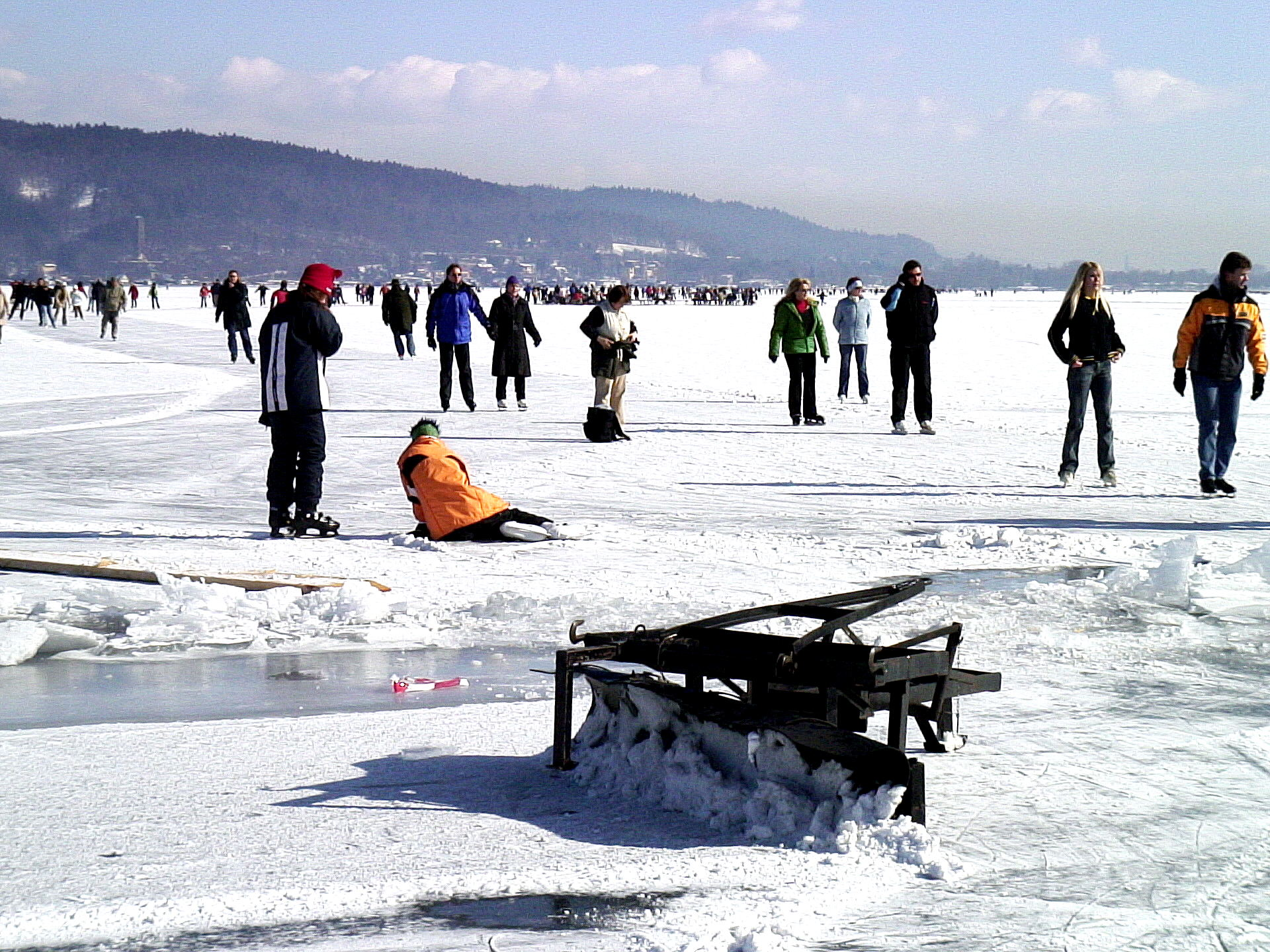 Skating on the frozen surface of the Lake Woerth in the bay of Reifnitz, municipality Maria Woerth, district Klagenfurt Land, Carinthia / Austria / EU